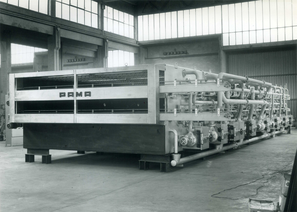 First pasteurizing machine made in 60's, under the PAMA brand (Verona, Italy).